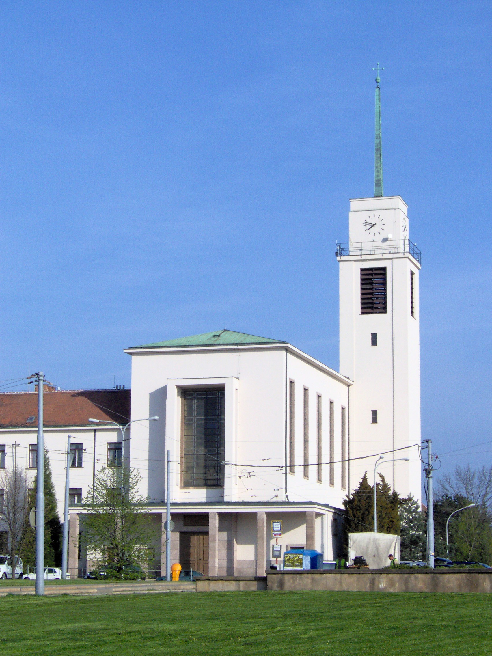 Saint Augustine church, Brno, Czech Republic